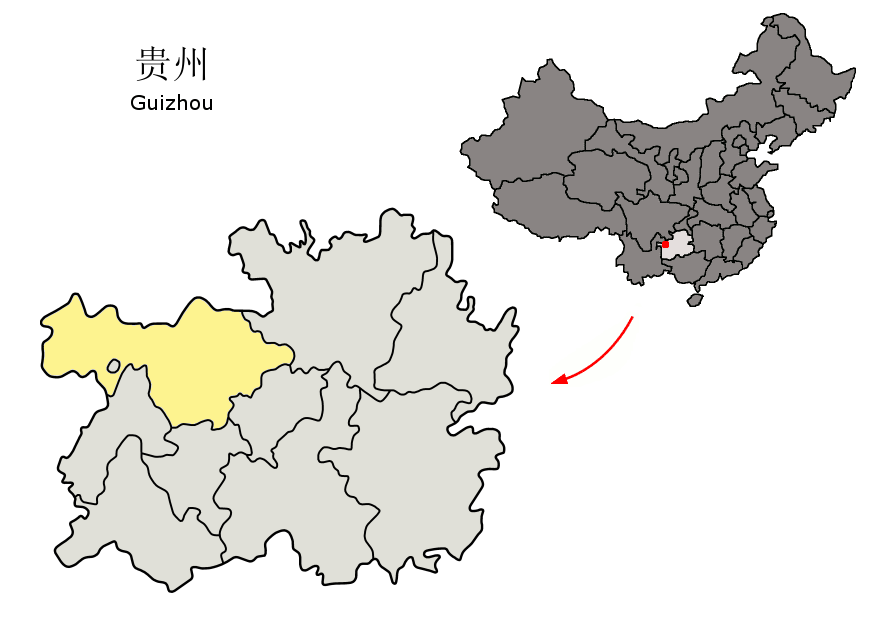 Location of Bijie Prefecture (yellow) within Guizhou province of China Map drawn in november 2007 using various sources, mainly : Guizhou province administrative regions GIS data: 1:1M, County level, 1990 Guizhou Counties map from